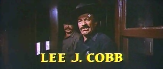 Cropped screenshot of the film How the West Was Won